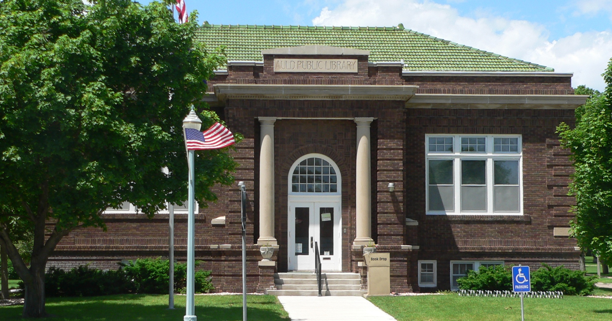 Auld Public Library in Red Cloud, Nebraska; seen from the east. The Classical Revival building was constructed in 1917. It is listed in the National Register of Historic Places.